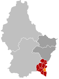 Wellenstein municipality location (valid until 1 January 2012). Own edit of Kanton RemichLocatie.png